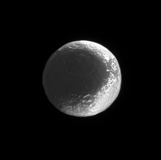 This Cassini spacecraft view shows how the bright and dark regions on Iapetus fit together like the seams of a baseball. Some of the material that covers the moon's dark, leading side spills over into regions on the brighter trailing side, creating the feature near upper right referred to by some scientists as "the Moat." (See PIA06168 for a higher resolution view of this region.) The large impact basin above center in the dark terrain has a diameter of about 550 kilometers (340 miles). This view looks toward the Saturn-facing hemisphere of Iapetus (1,468 kilometers, or 912 miles across). North is up. The image was taken in visible light with the Cassini spacecraft narrow-angle camera on June 25, 2006 at a distance of approximately 1.6 million kilometers (1 million miles) from Iapetus. Image scale is 9 kilometers (6 miles) per pixel. The Cassini-Huygens mission is a cooperative project of NASA, the European Space Agency and the Italian Space Agency. The Jet Propulsion Laboratory, a division of the California Institute of Technology in Pasadena, manages the mission for NASA's Science Mission Directorate, Washington, D.C. The Cassini orbiter and its two onboard cameras were designed, developed and assembled at JPL. The imaging operations center is based at the Space Science Institute in Boulder, Colo.